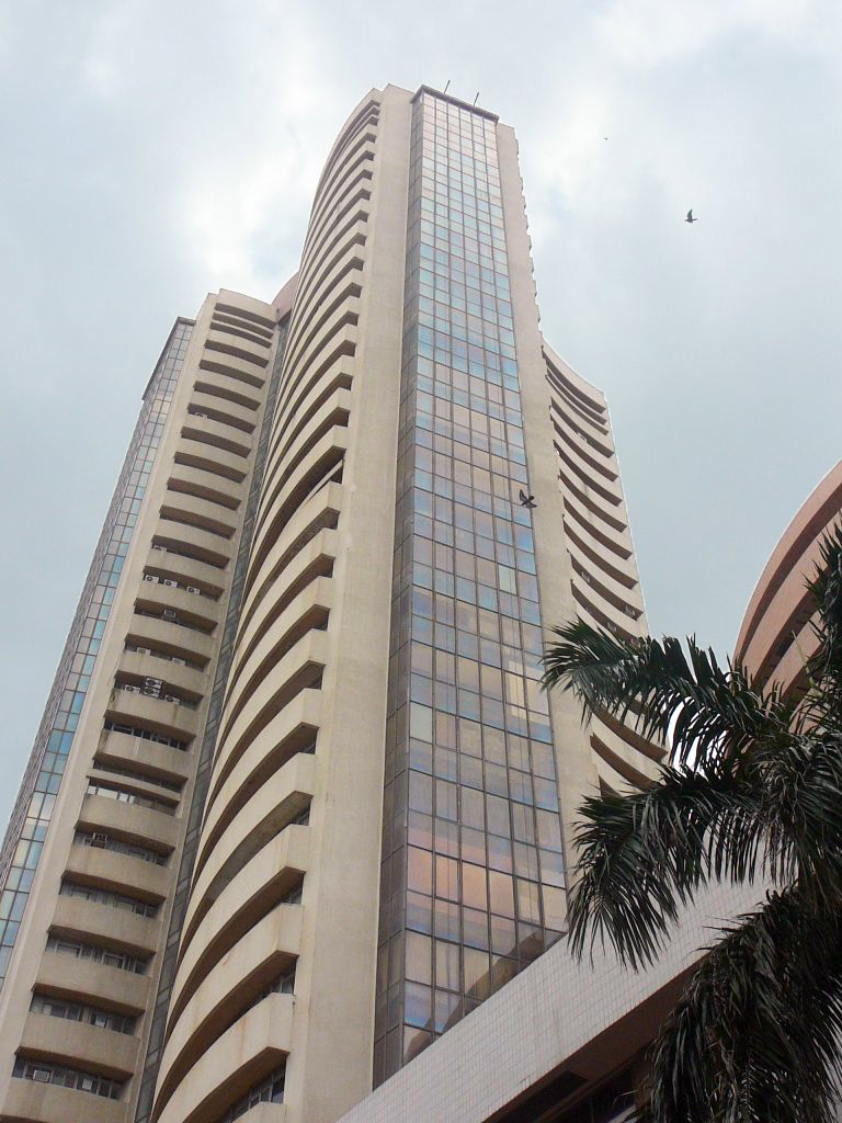 The Bombay Stock Exchange, in Mumbai, is Asia's oldest and India's largest stock exchange